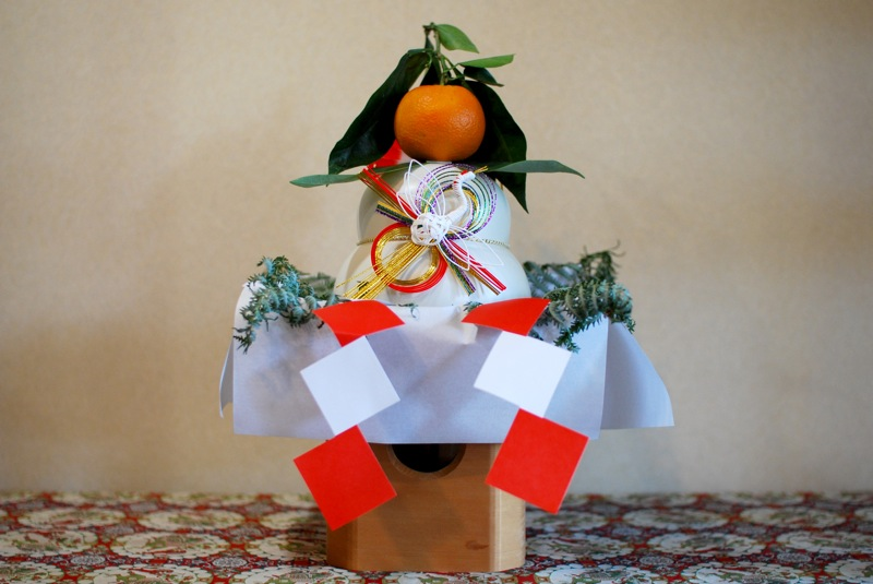 "Kagami mochi" 鏡餅 Japanese orange "MIkan 蜜柑" on the top